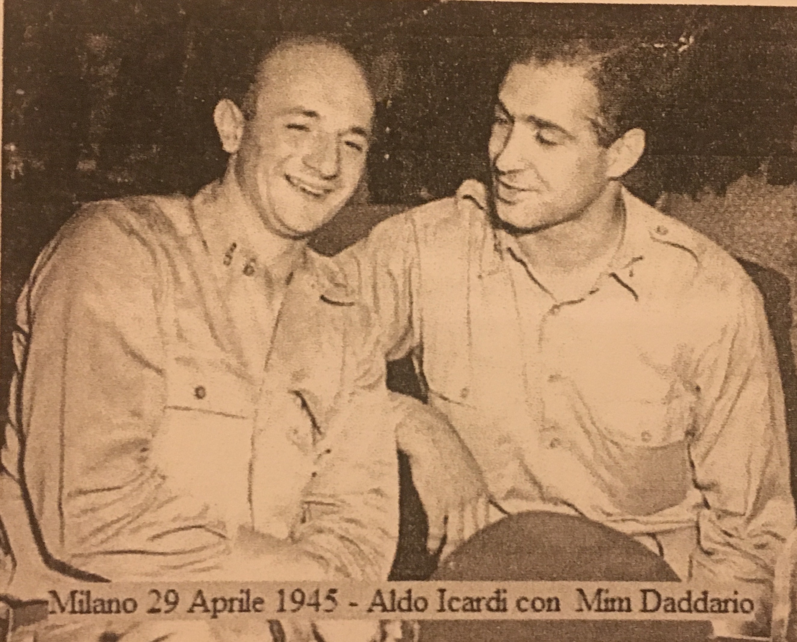 Milan, 29 April 1945